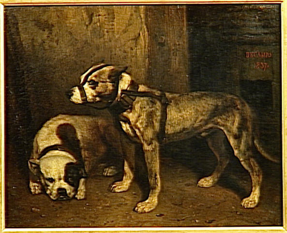 Decamps 1837~1848. "BULLDOG AND SCOTCH(Scottish) TERRIER". A old bulldog and a Bull-and-terrier with a muzzle. Painting by Alexandre Gabriel Decamps.